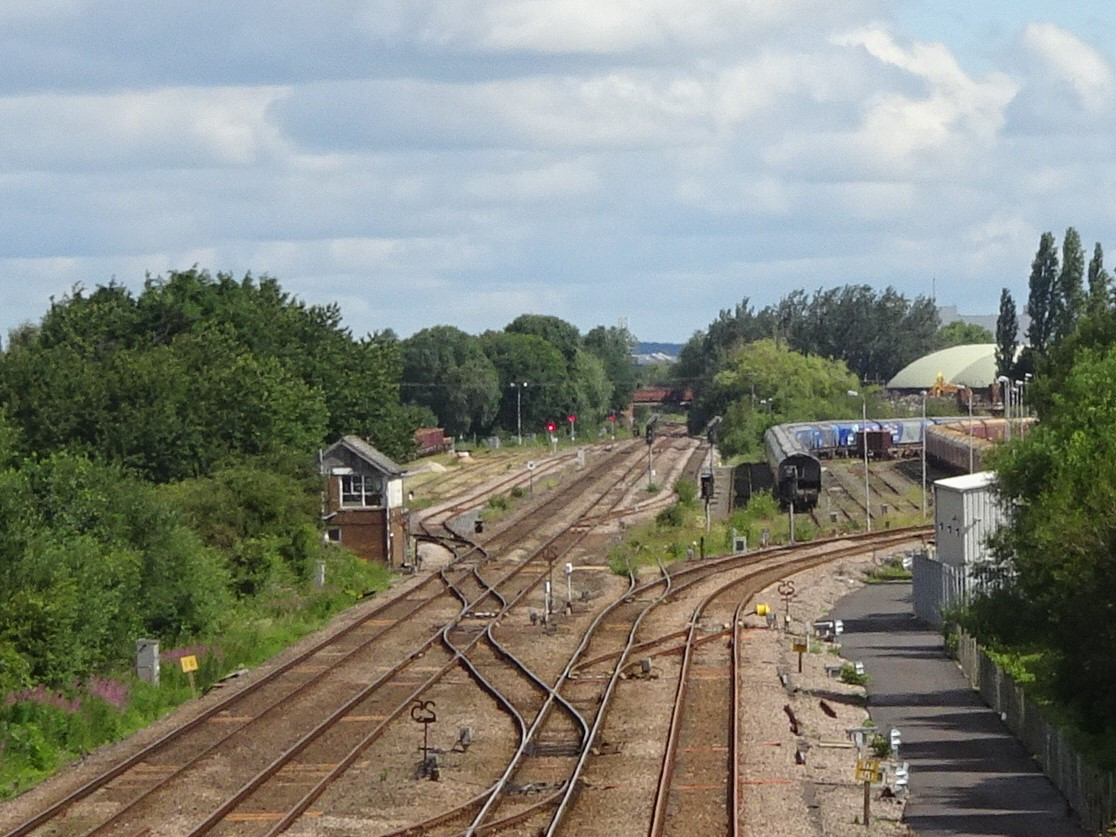 Milford (Junction) railway station (site), YorkshireOpened in 1840 by the York & North Midland Railway on the line from York to Castleford, this station closed in 1904 when it was replaced by Monk Fryston station (a few hundred metres behind the camera position). It was known as "Milford Junction" until 1893. View north towards Sherburn-in-Elmet and York. The station was just beyond and to the right of the signal box, but all trace of it has apparently disappeared over the years as the area was used for sidings when this image was taken.